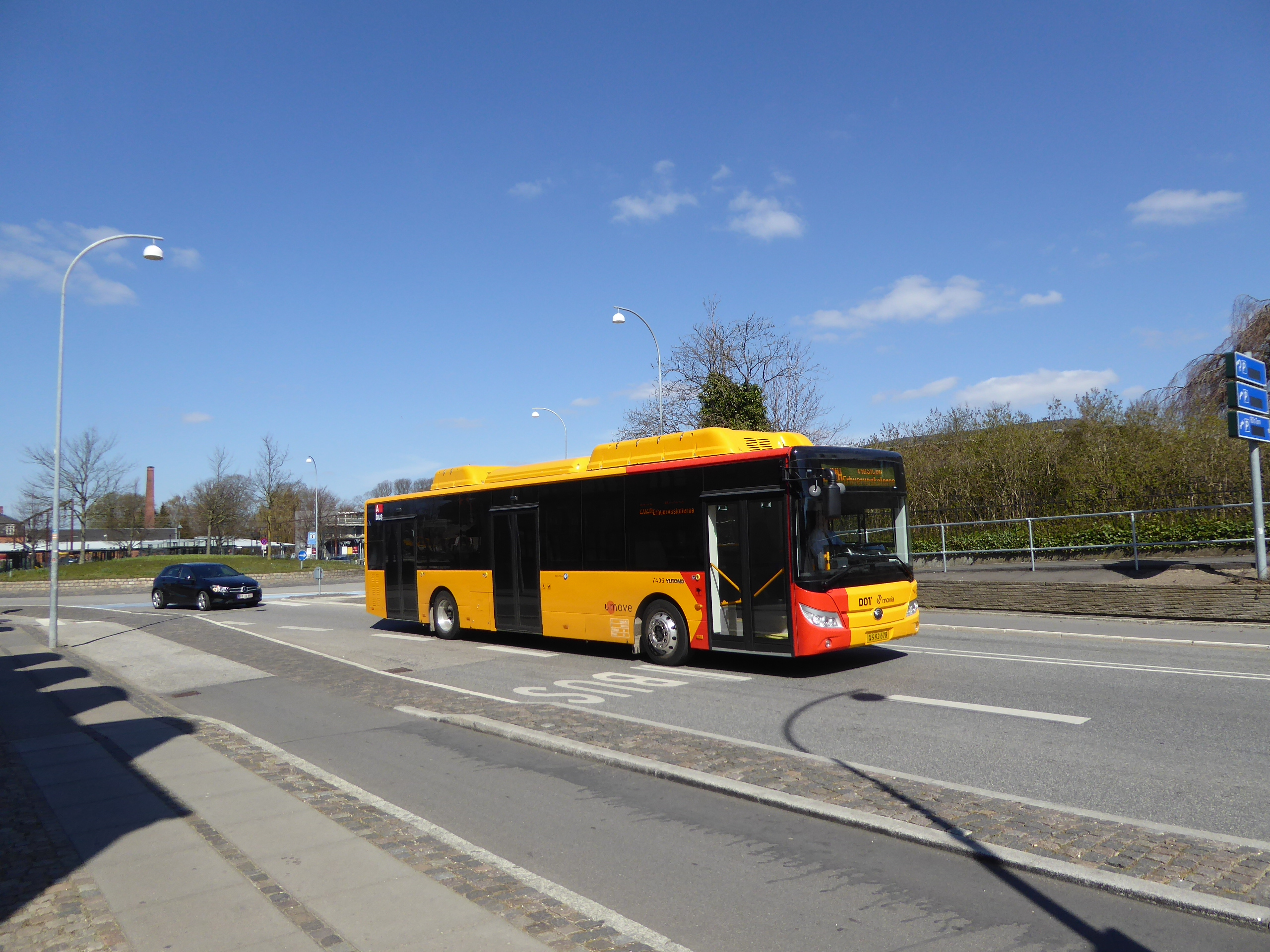 Movia bus line 202A on Køgevej in Roskilde in Denmark. The day before all the local bus lines of Roskilde got electric Yutong E12LF buses like this.